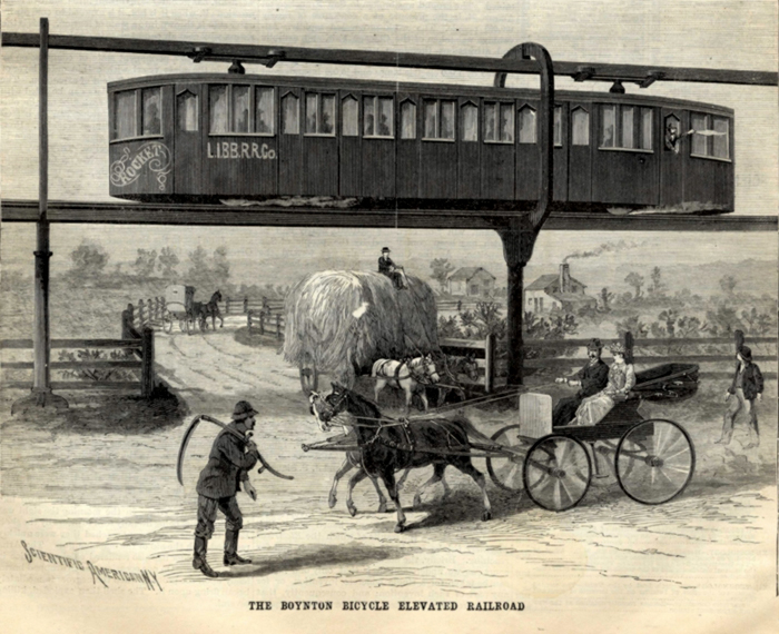 Boynton Bicycle Railroad, Brooklyn 1890-1892